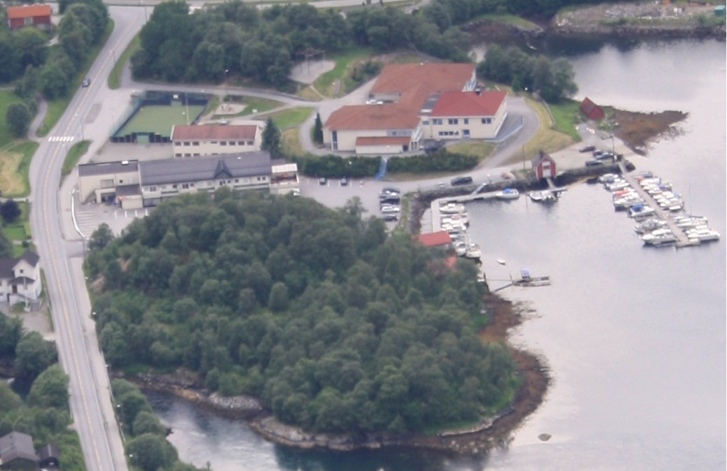 The Hasund Primary School, seen from the peak Hasundhornet just outside Ulsteinvik city